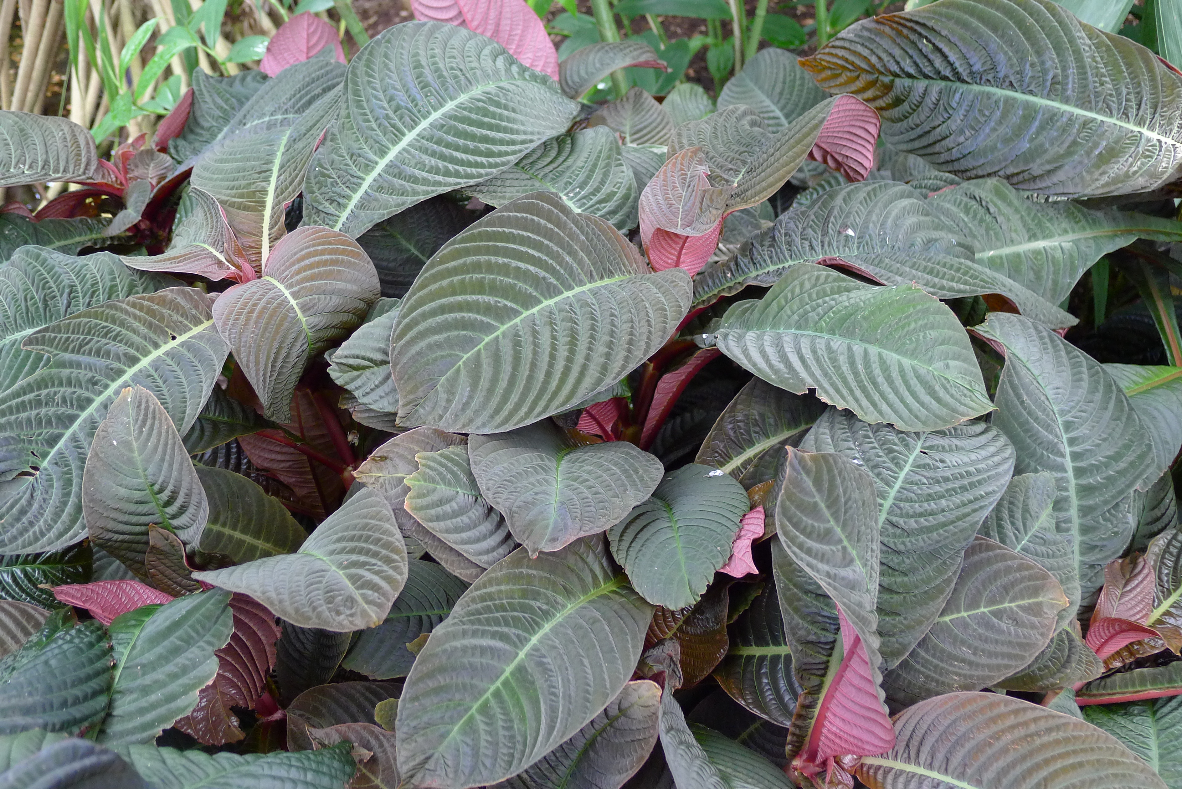 Hoffmannia refulgens (Taffeta plant) in the Boltz Conservatory of Olbrich Botanical Gardens in Madison, Wisconsin